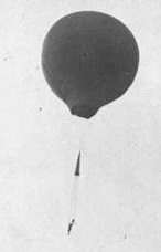 Image of a balloon ascension between 1890 and 1909.